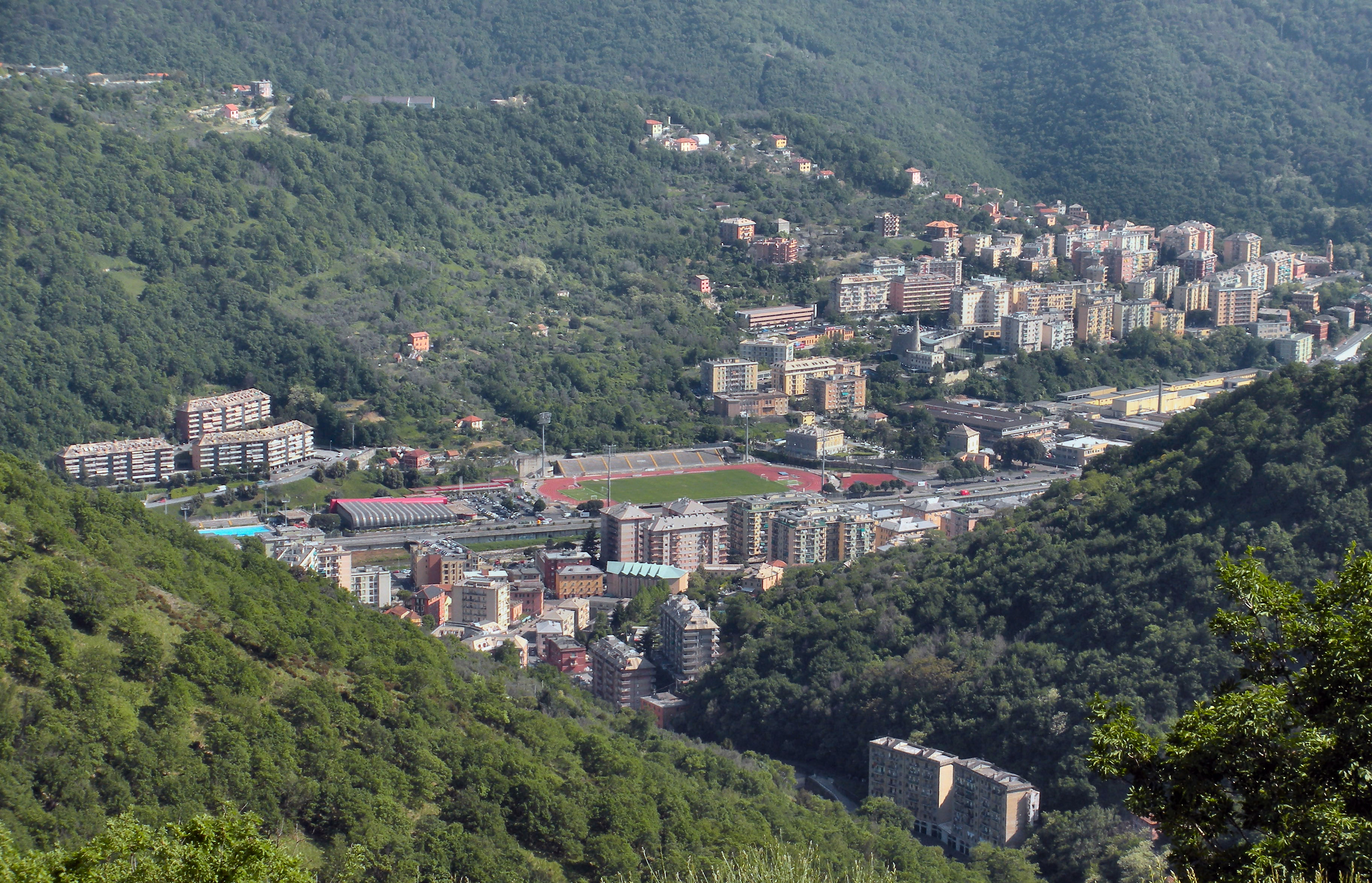 Genoa (Italy), Bisagno Valley, Montesignano, S. Gottardo and Sciorba stadium